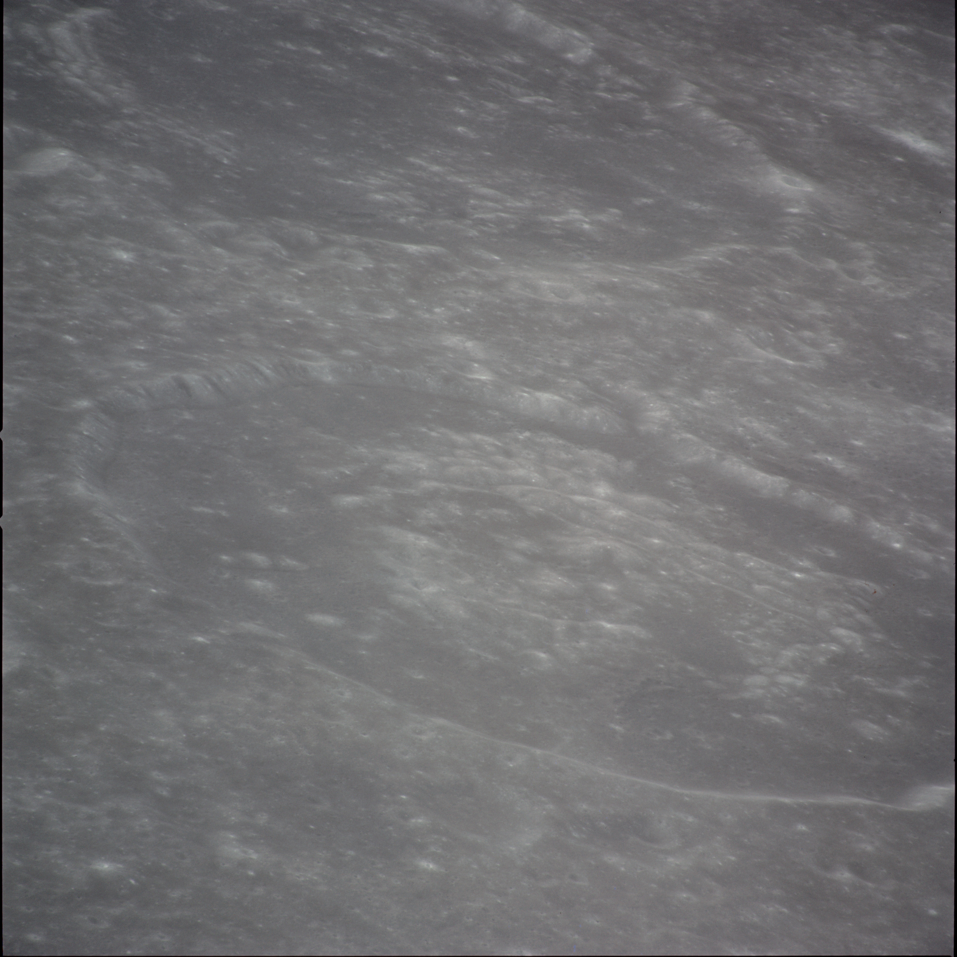 Oblique view of Warner (foreground) with Runge crater in background, in Mare Smythii, the moon. Facing north.